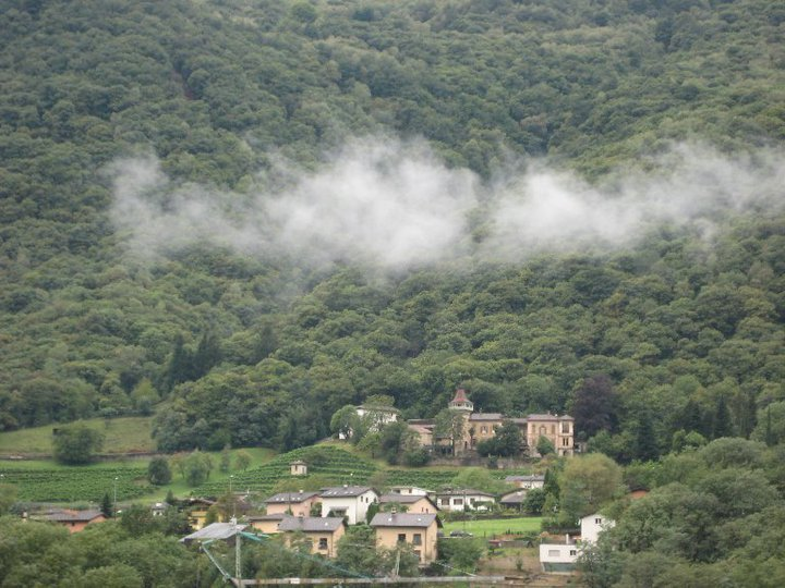 This is the castle of Torricella- Switzerland made by the architect Michele Trefogli